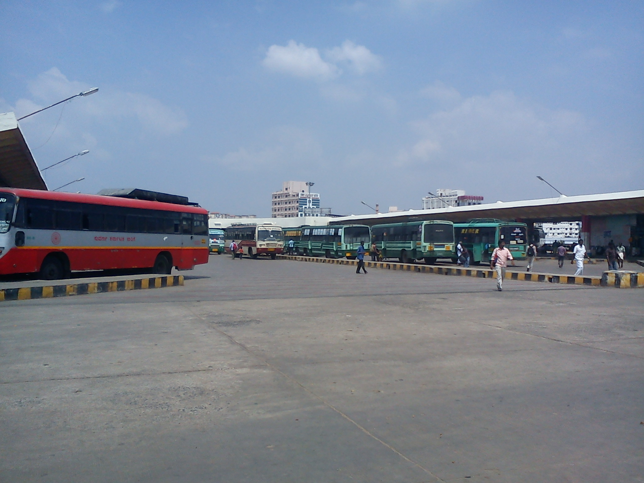 MIBT 2 ND AND 3RD PLATFORM